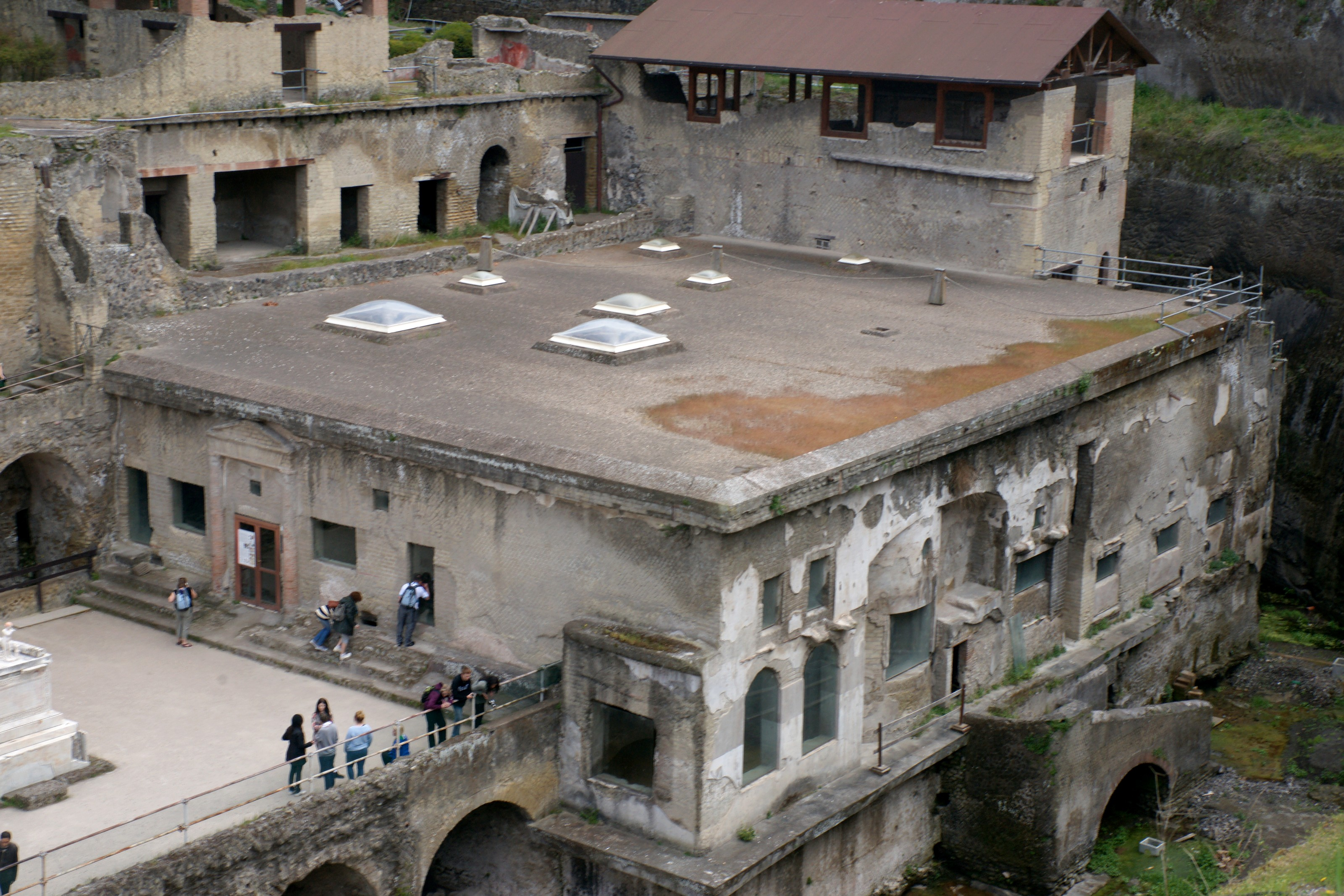 Herculaneum: Suburbane Thermen